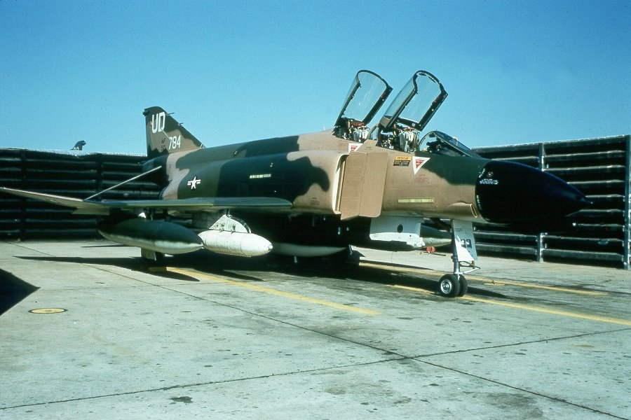 Joey Hill, F4-D 650784